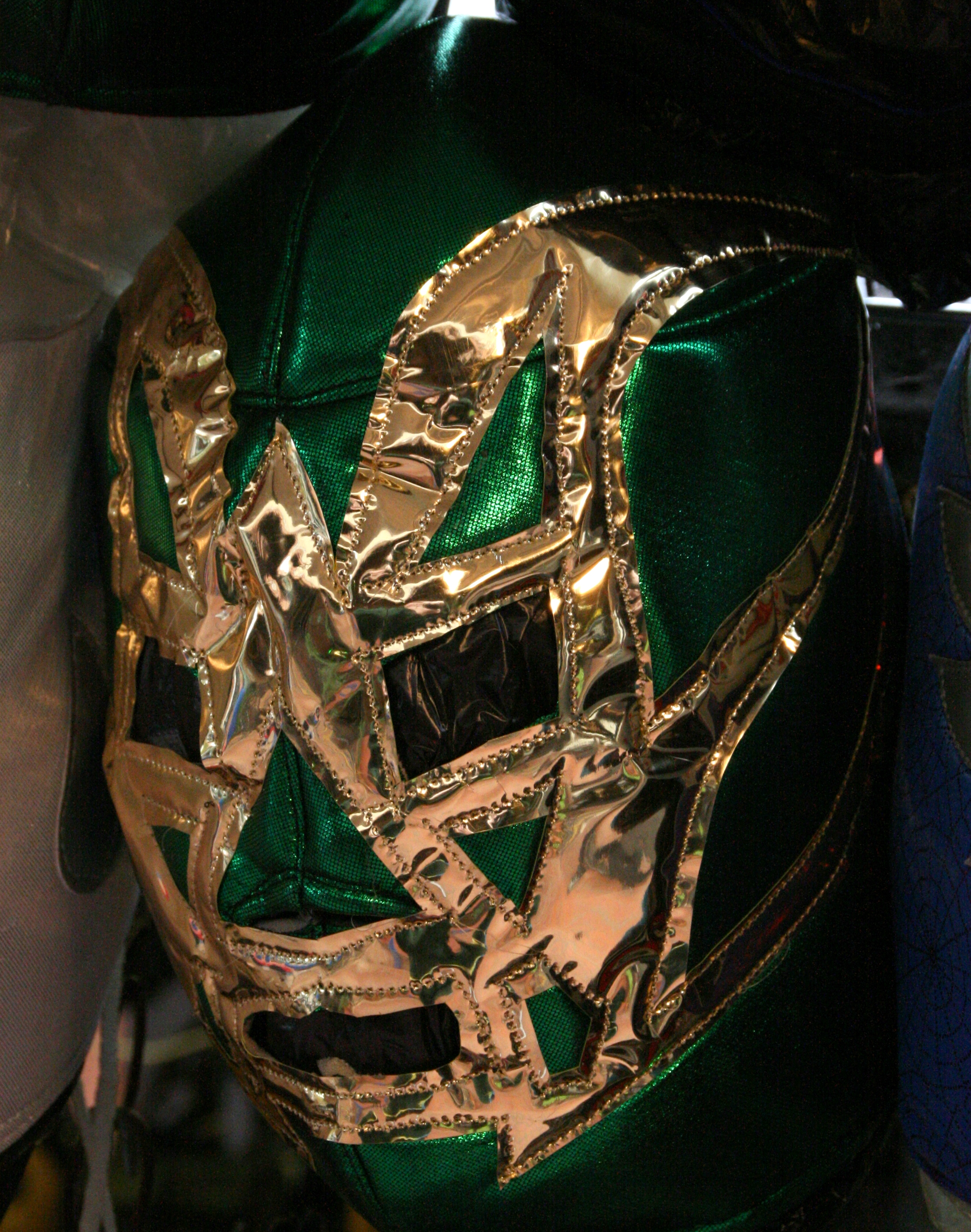 The mask of Luchador Fishman